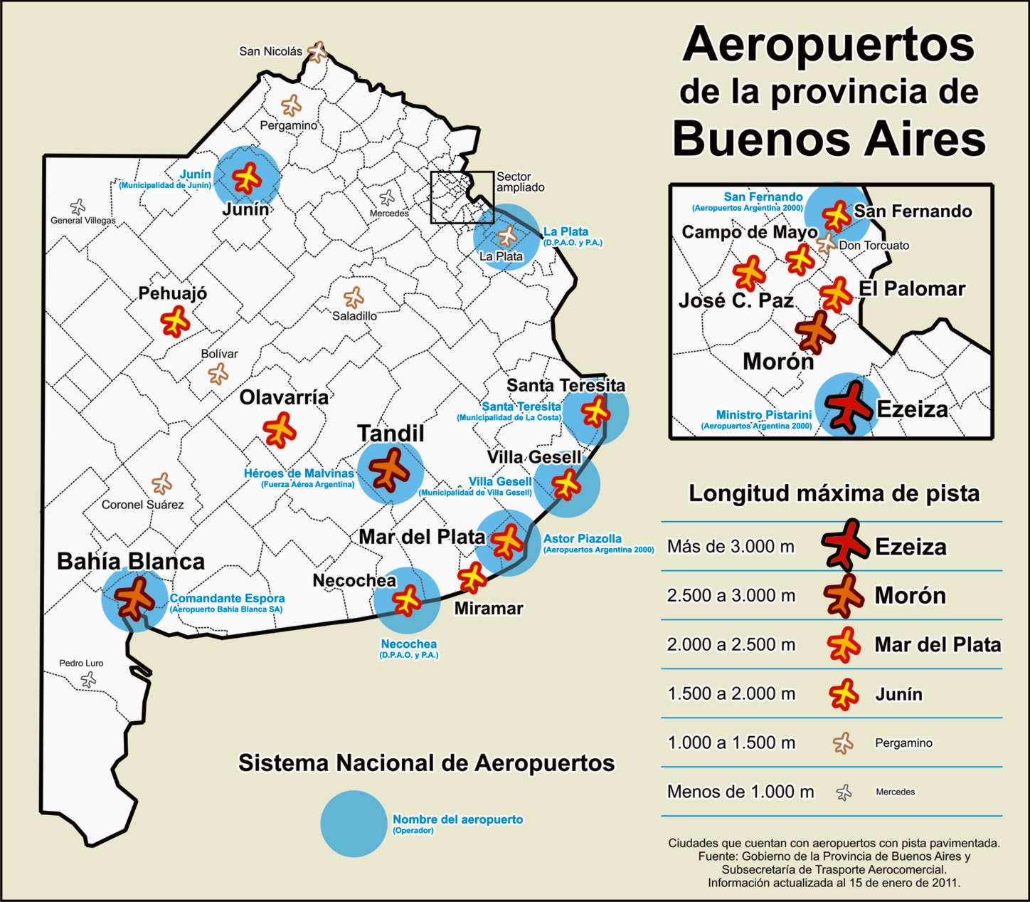 Airports in Buenos Aires province, Argentina.